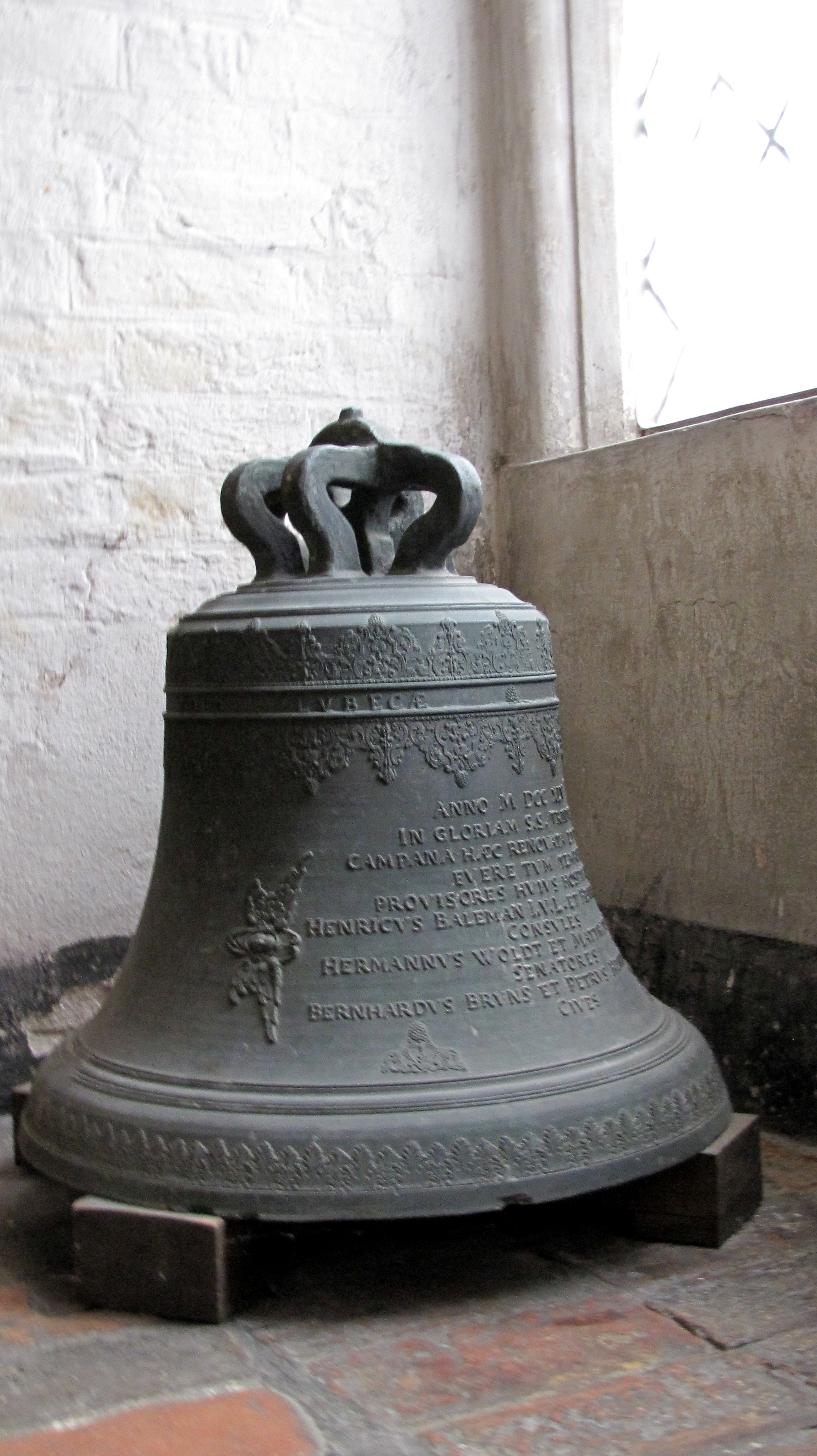 Bell from Heiligen-Geist-Hospital, LÜbeck, now in Katharinenkirche, Lübeck. Casted in 1745 by Dietrich Strahlborn by the order of the senators Heinrich Balemann, Heinrich Rust, Hermann Woldt and Mattheus Rodde